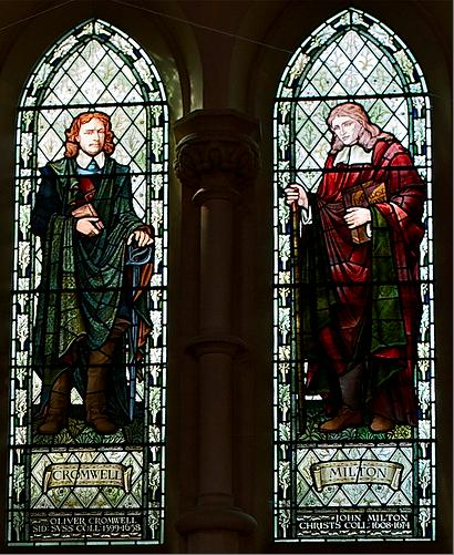 Oliver Cromwell (left) and John Milton. Stained glass windows in Emmanuel United Reformed Church, Trumpington Street, Cambridge, England (UK). Milton carries his book Paradise Lost.